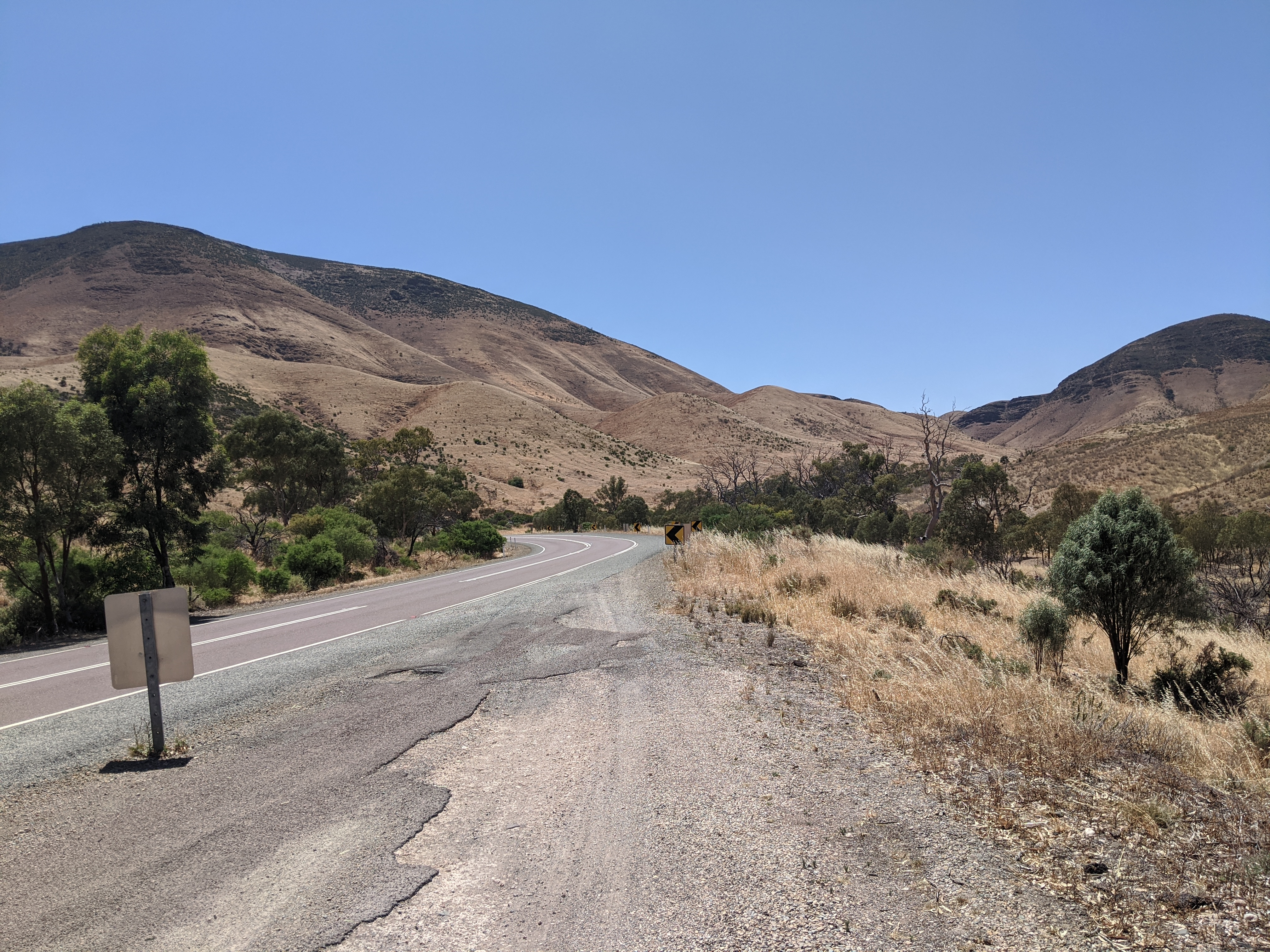 View of Horrocks Pass from lookout on Horrocks Pass road just east of Spear Creek road, Nectar Brook